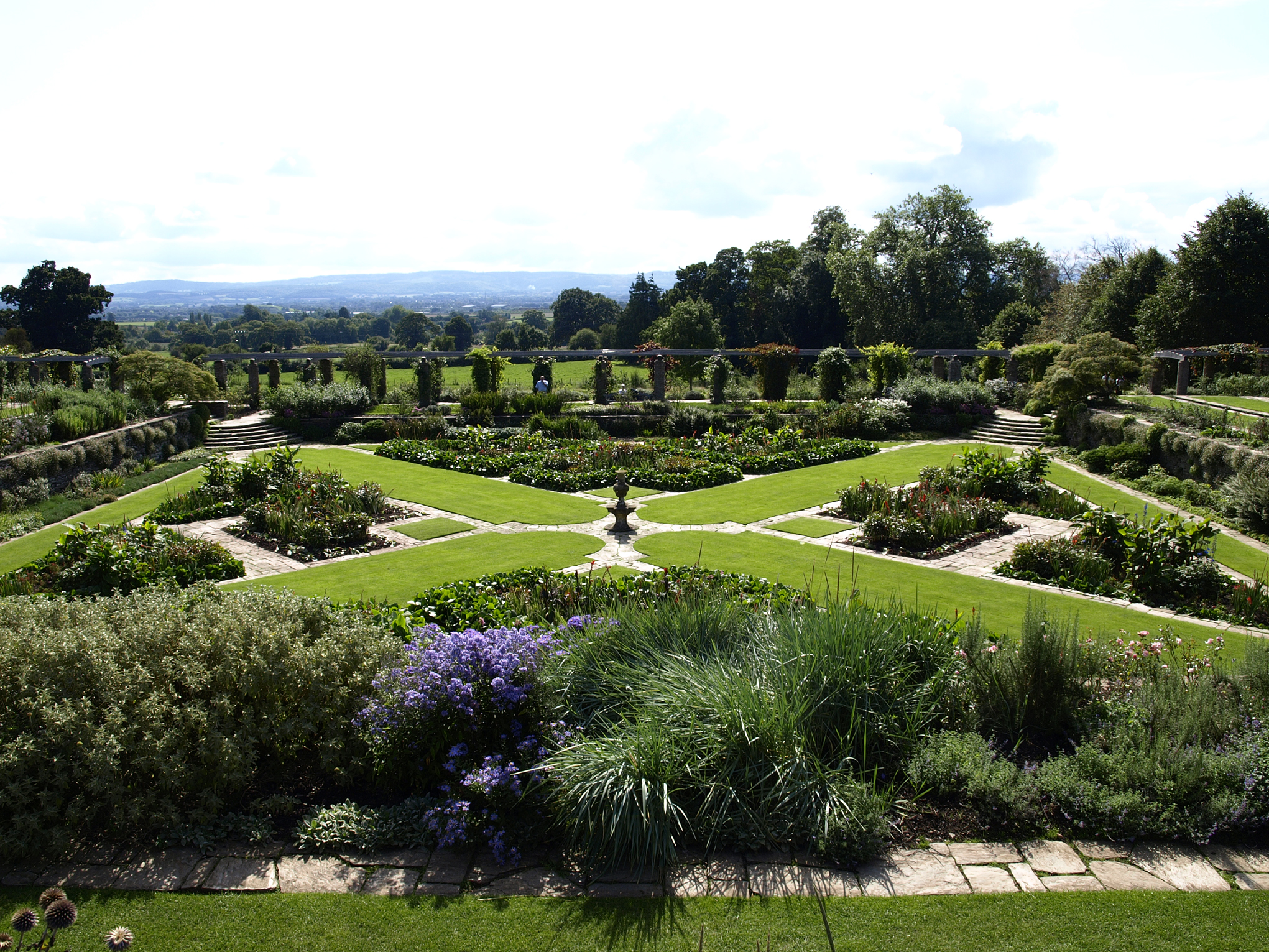 Hestercombe Gardens, Taunton, Somerset, UK. Designed by Sir Edward Lutyens and established in 1904-08.